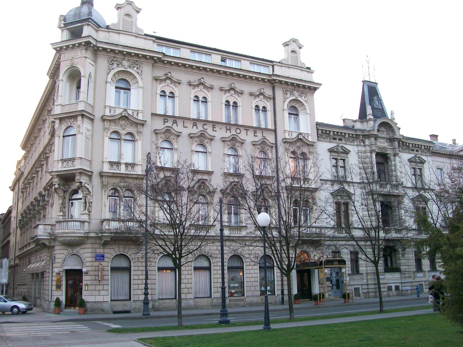 Palace Zagreb Hotel, originally called Schlesinger Palace (1891), once owned by Šandor Alexander (1866-1929), designed by Julio Deutsch (1859-1922)